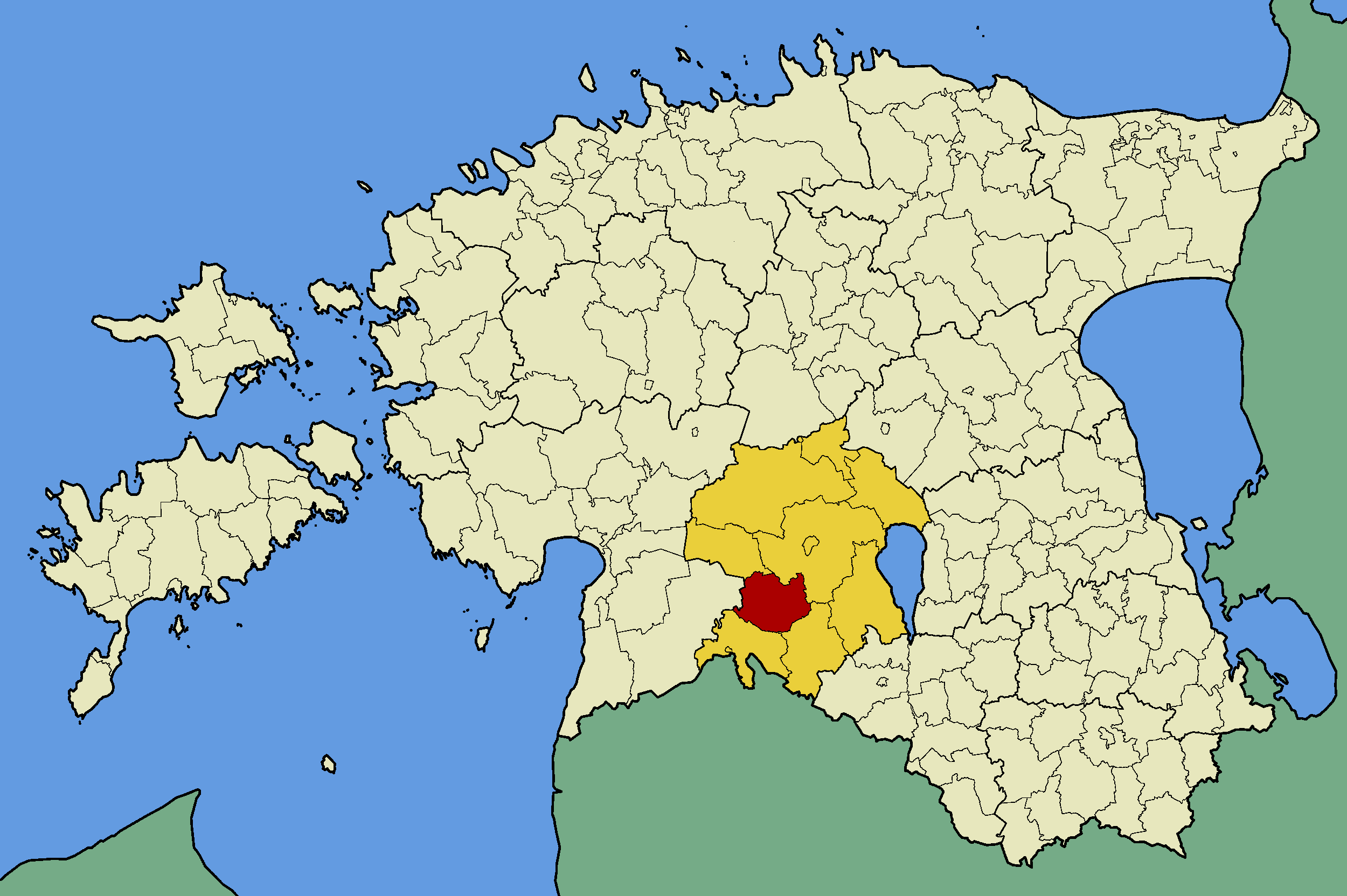 Map of Estonia with borders of municipalities (parishes). Viljandi county and Halliste municipality emphasized.